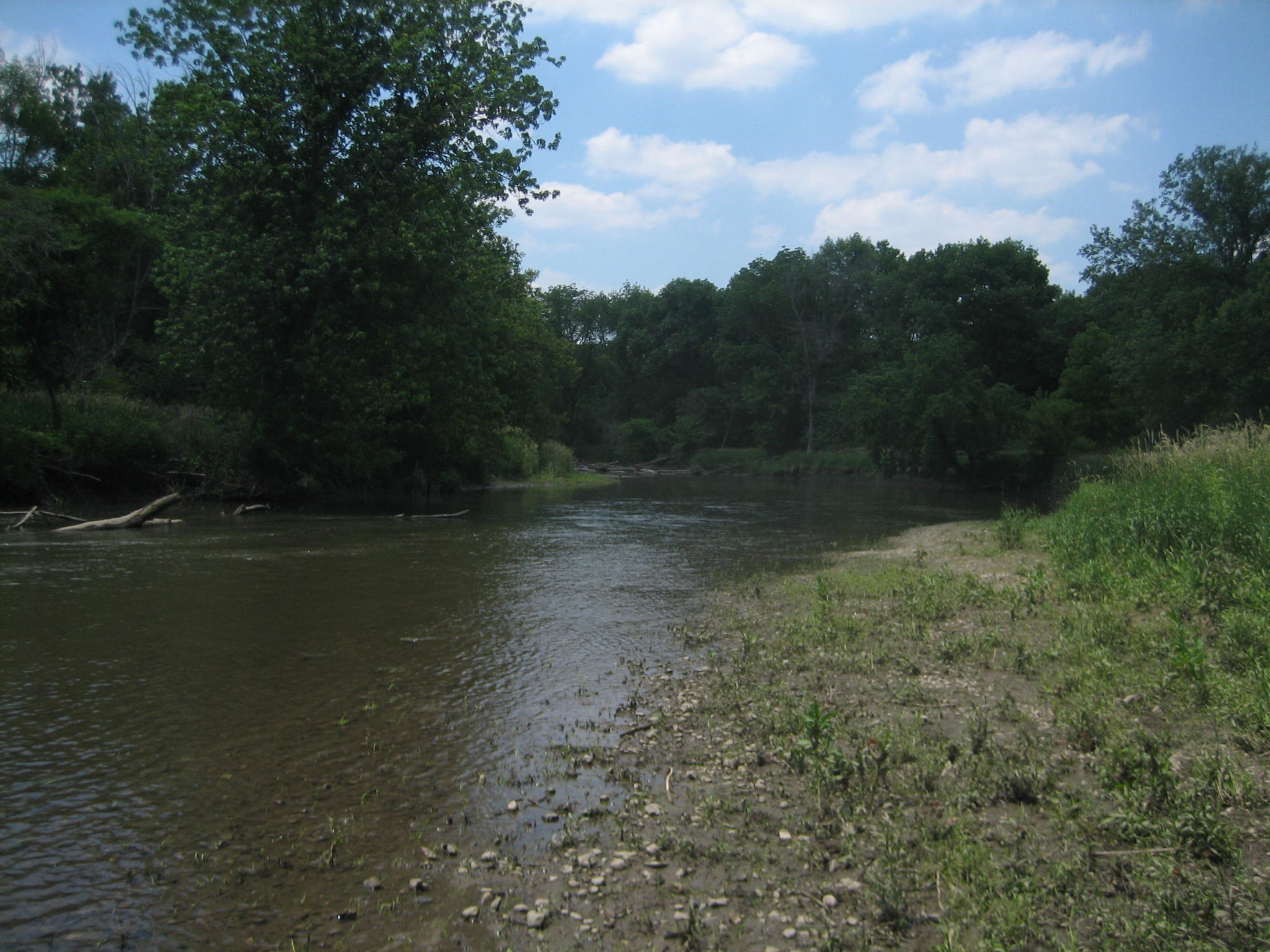 Kishwaukee River State Fish and Wildlife Area, near Kirkland, Illinois in DeKalb County, Illinois, USA.